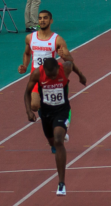 Ali Khamis and Boniface Mucheru Tumuti at the 2015 Military World Games. Foto: Sgt Johnson Barros